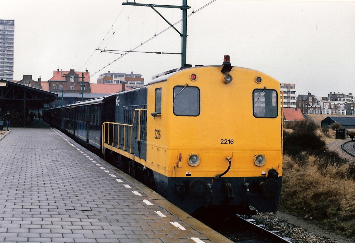 Two Dutch class 2220 diesel locomotives with a push and pull train at Zandvoort Station, 1987-03-10.